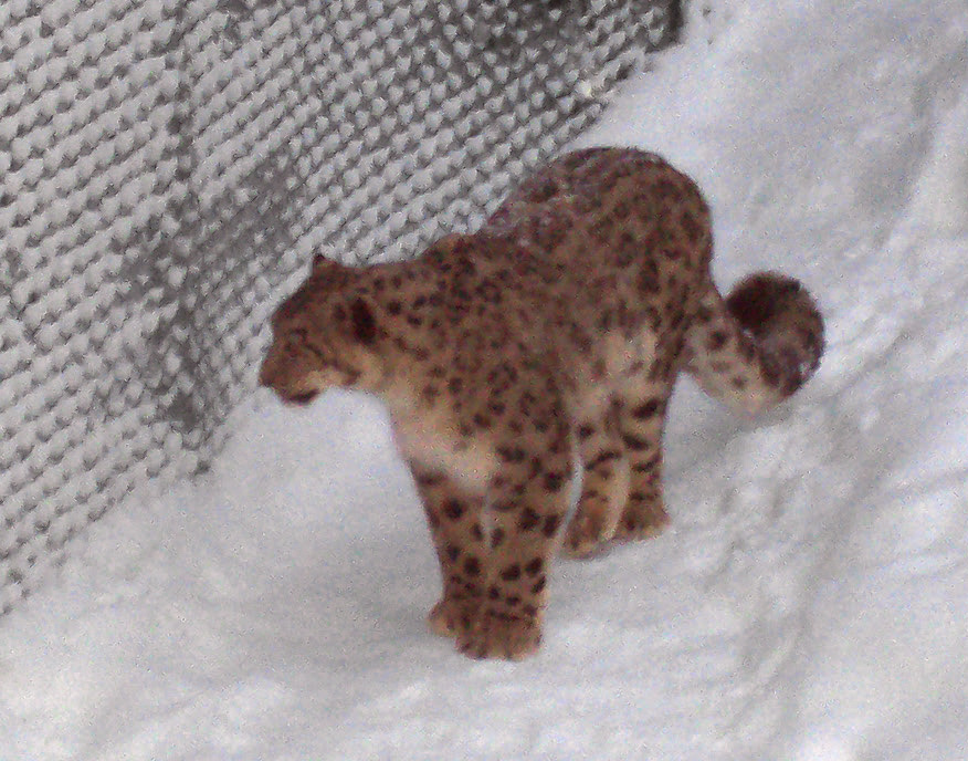 Picture of a snow leopard (Uncia uncia) at the Quebec zoological garden.